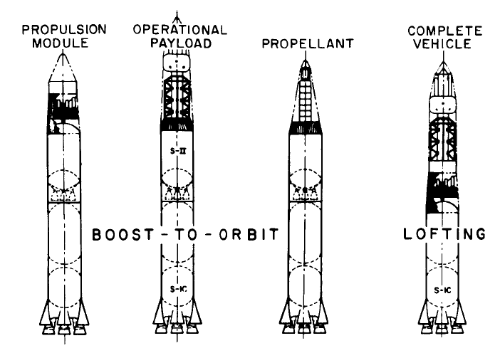 Project Orion Saturn-V compatibility